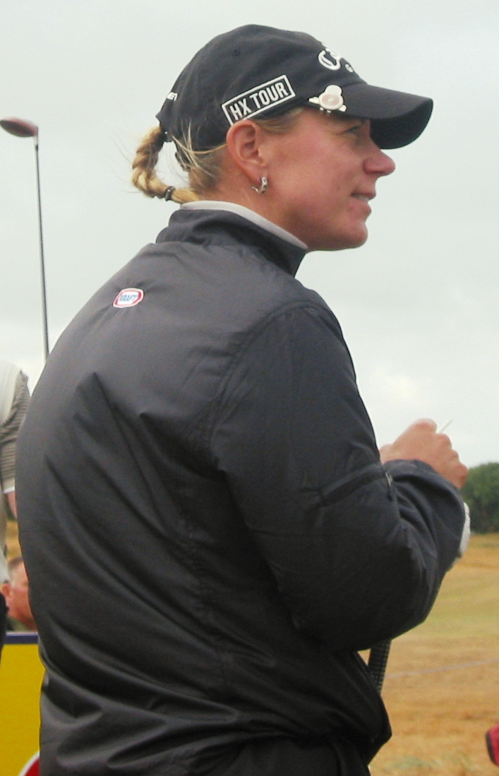 Annika Sorenstam on the 14th tee during the Pro_am at the Women's British Open 2006 at Royal Lytham & St. Annes Golf Club